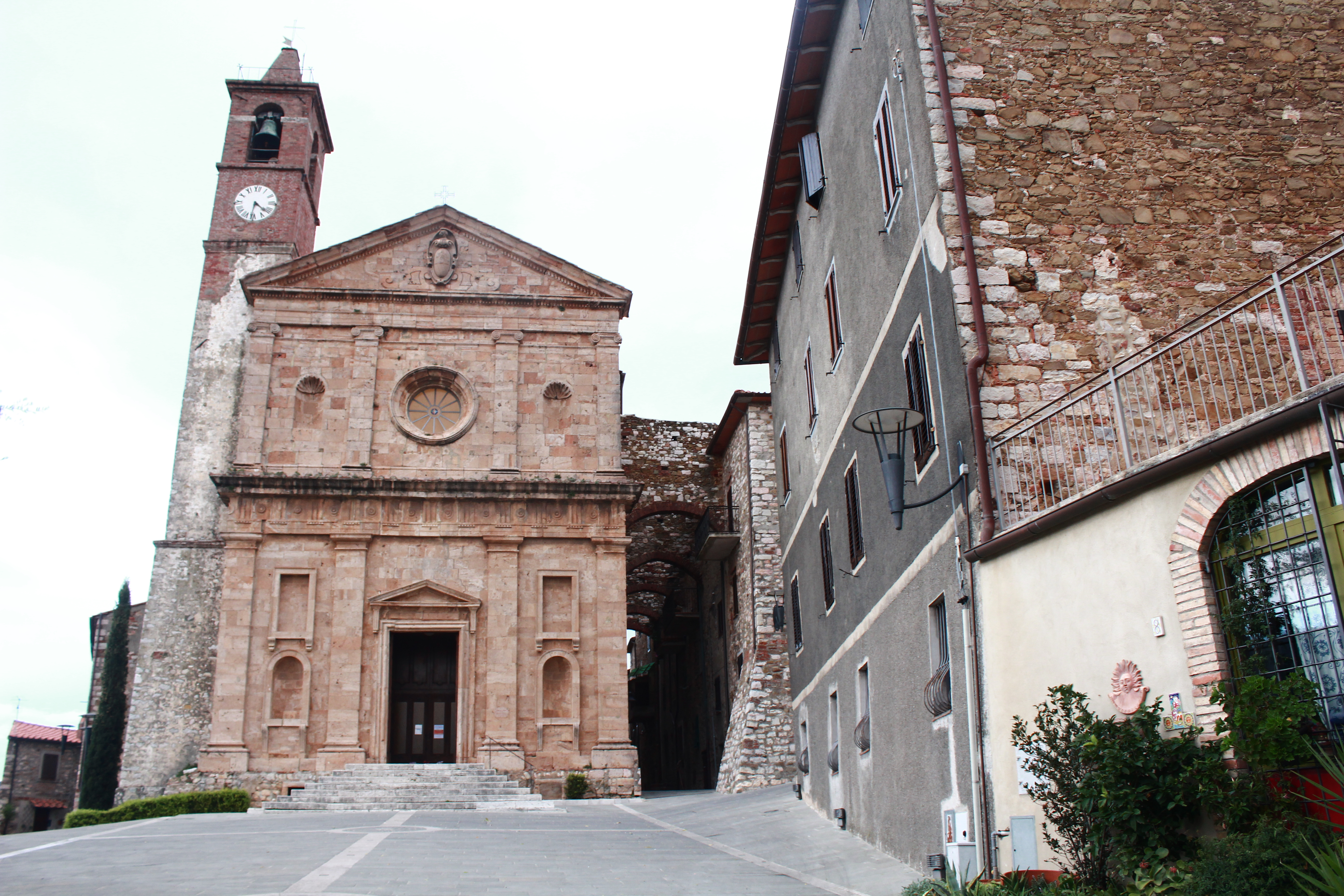 Church of San Biagio in Caldana, Grosseto, Tuscany